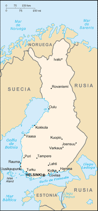 Mapa de Finlandia n'asturianu (Map of Finland in Asturian)